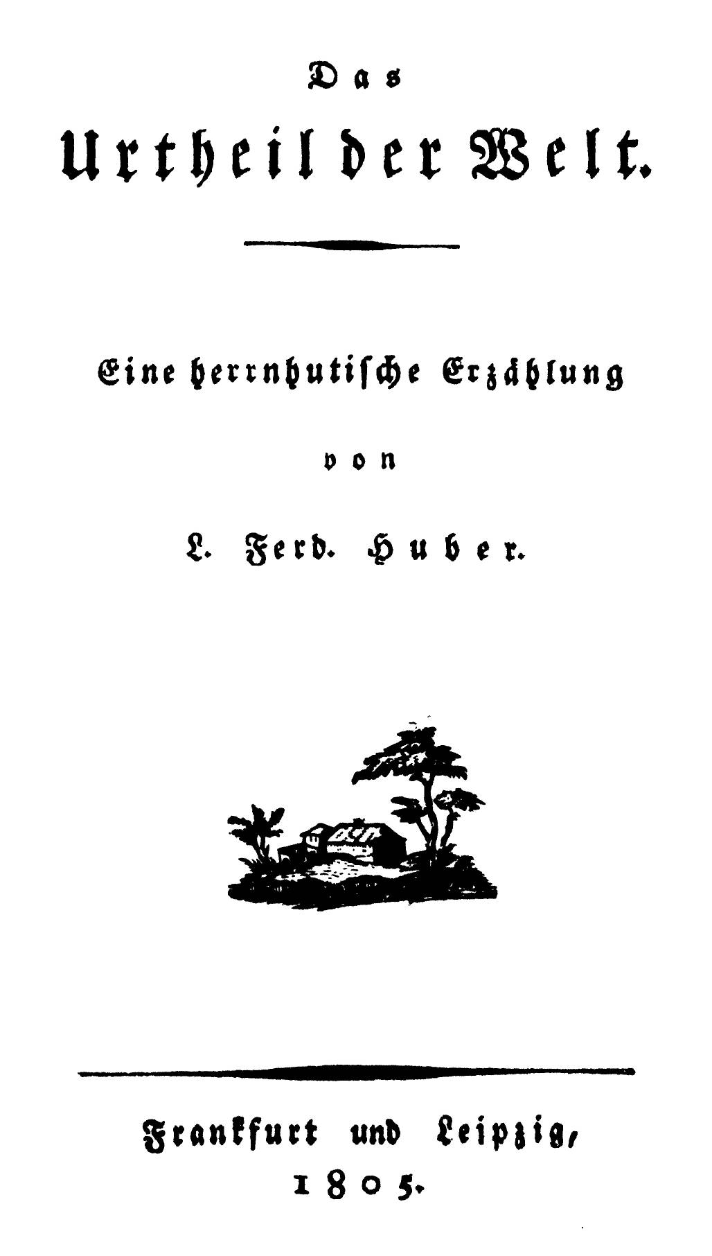 This is a scan of the historical document